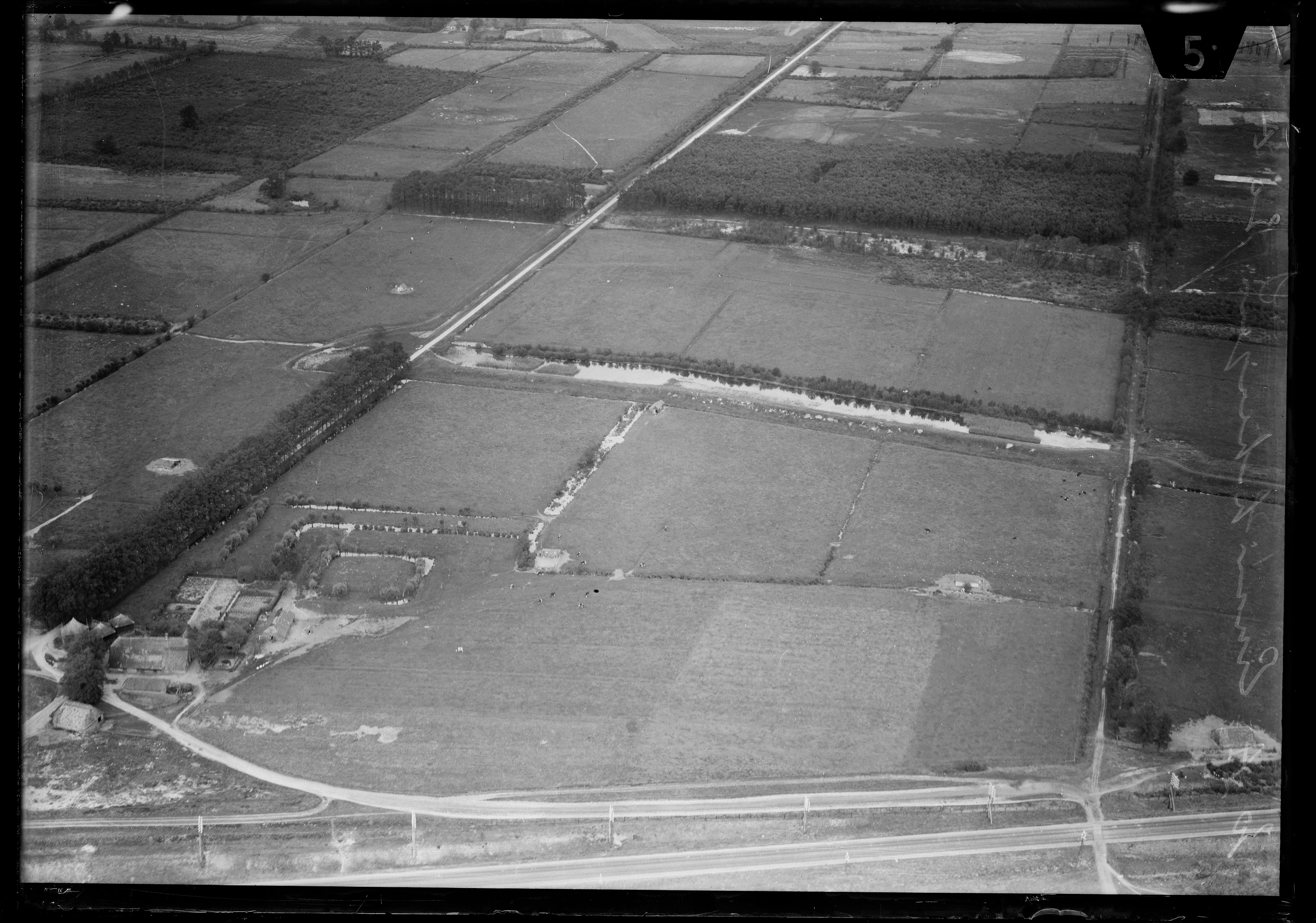 Aerial photograph of Emminkhuizen, Renswoude in The Netherlands.